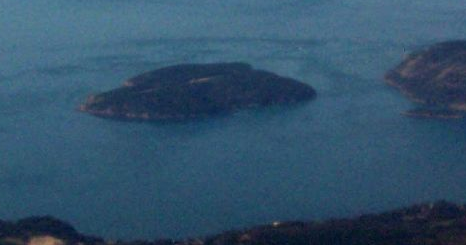 Allan's Island in the San Juan Islands, Washington State. Adapted from a larger photo of the Rosario Straight.